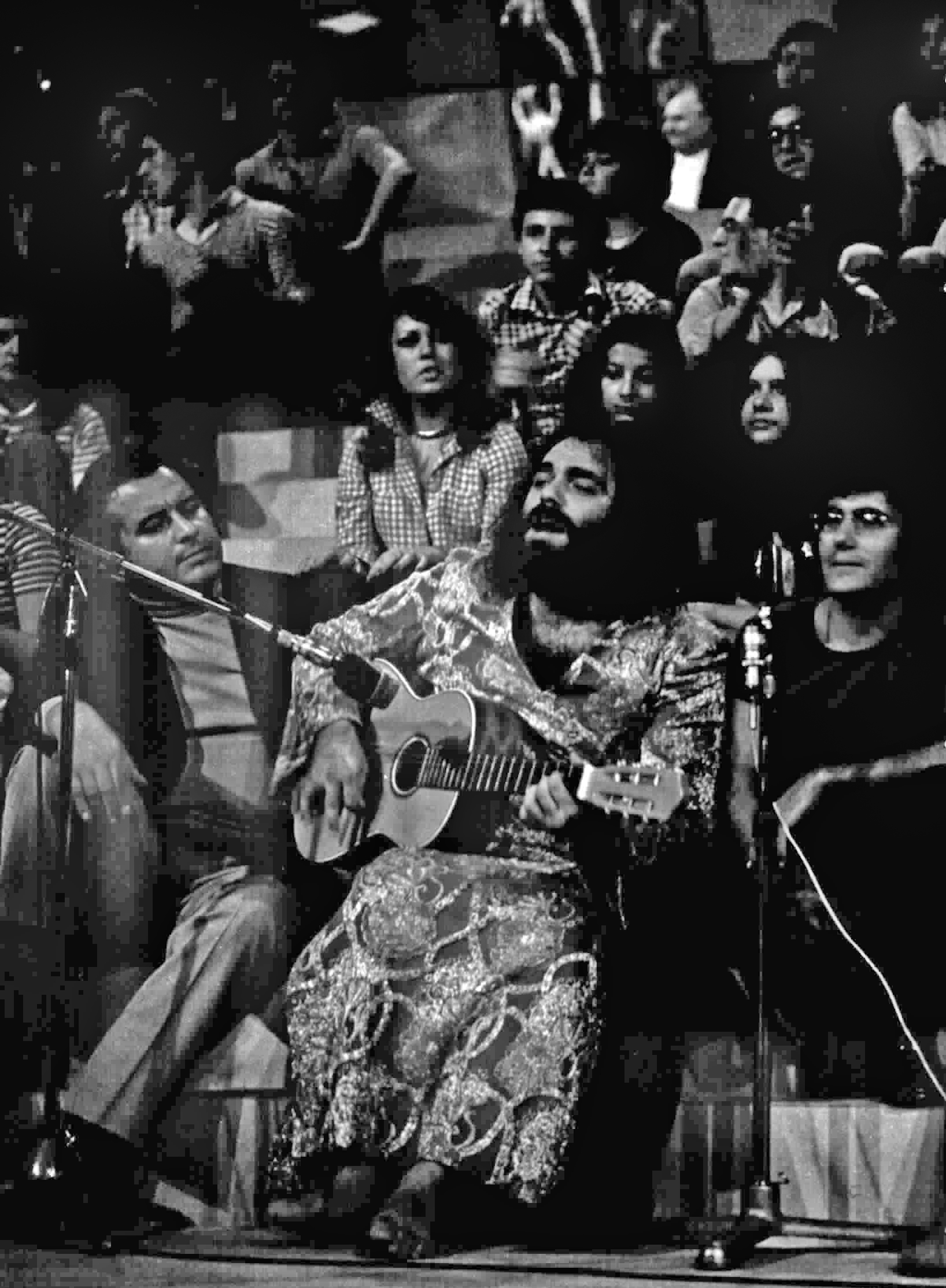 Demis Roussos, guest of the Italian show Tutto è pop, Turin, 1972